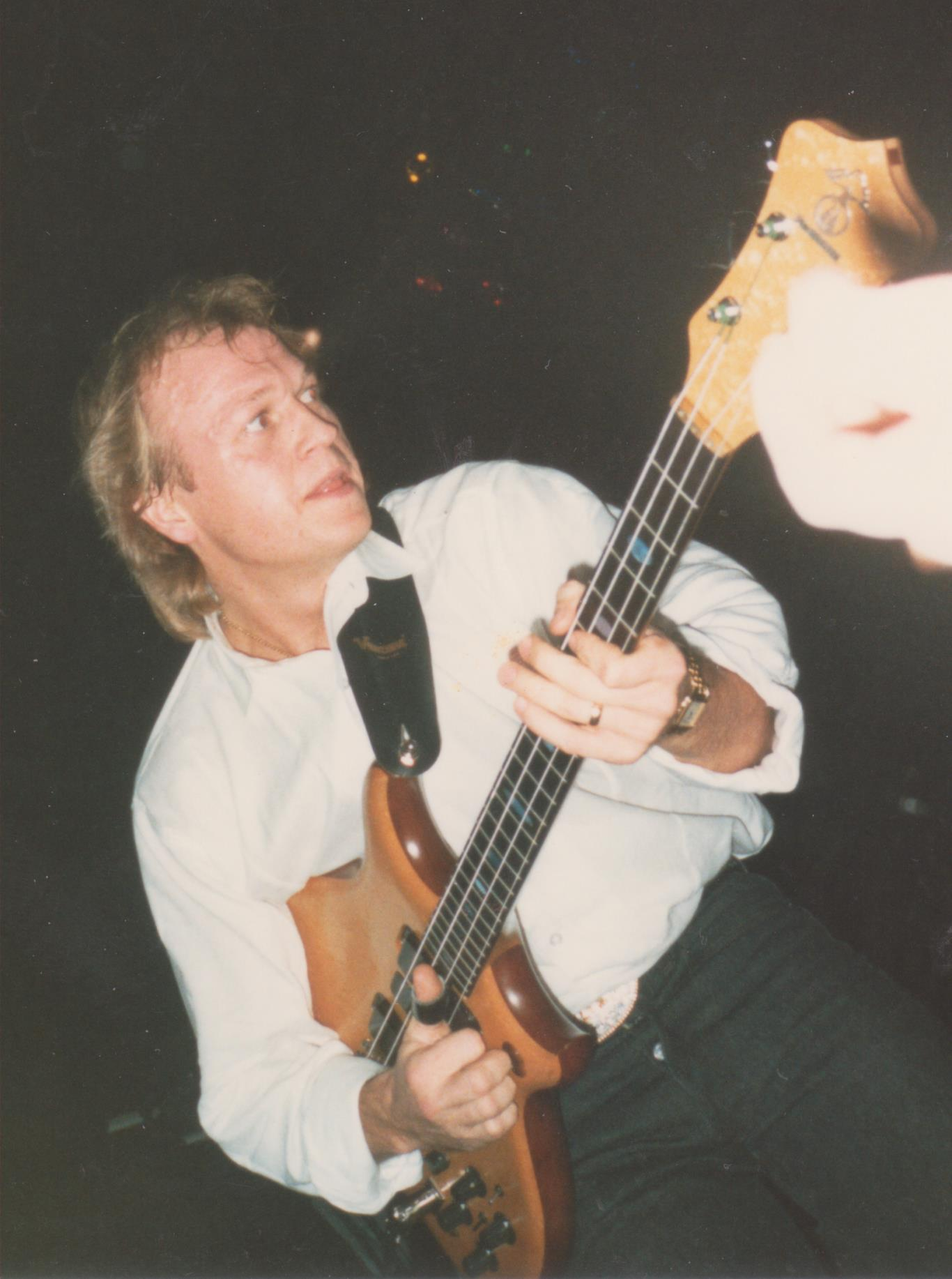 Mark King Level 42 at 1988 at Tel Aviv Israel